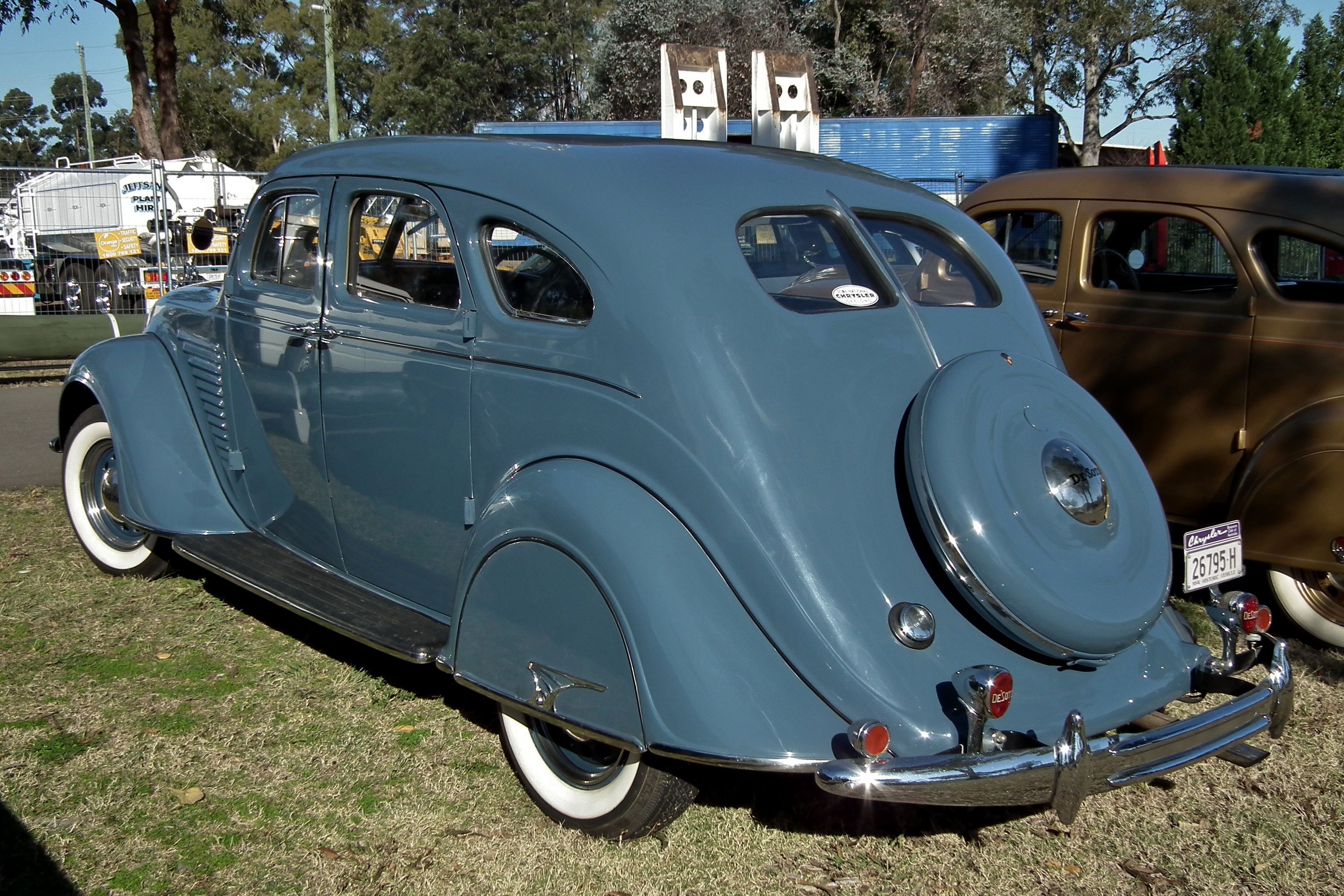 1934 DeSoto Airflow sedan. Taken in the carpark at the 2011 Sydney Antique & Classic Truck Show, held at the Museum of Fire in Penrith, NSW.